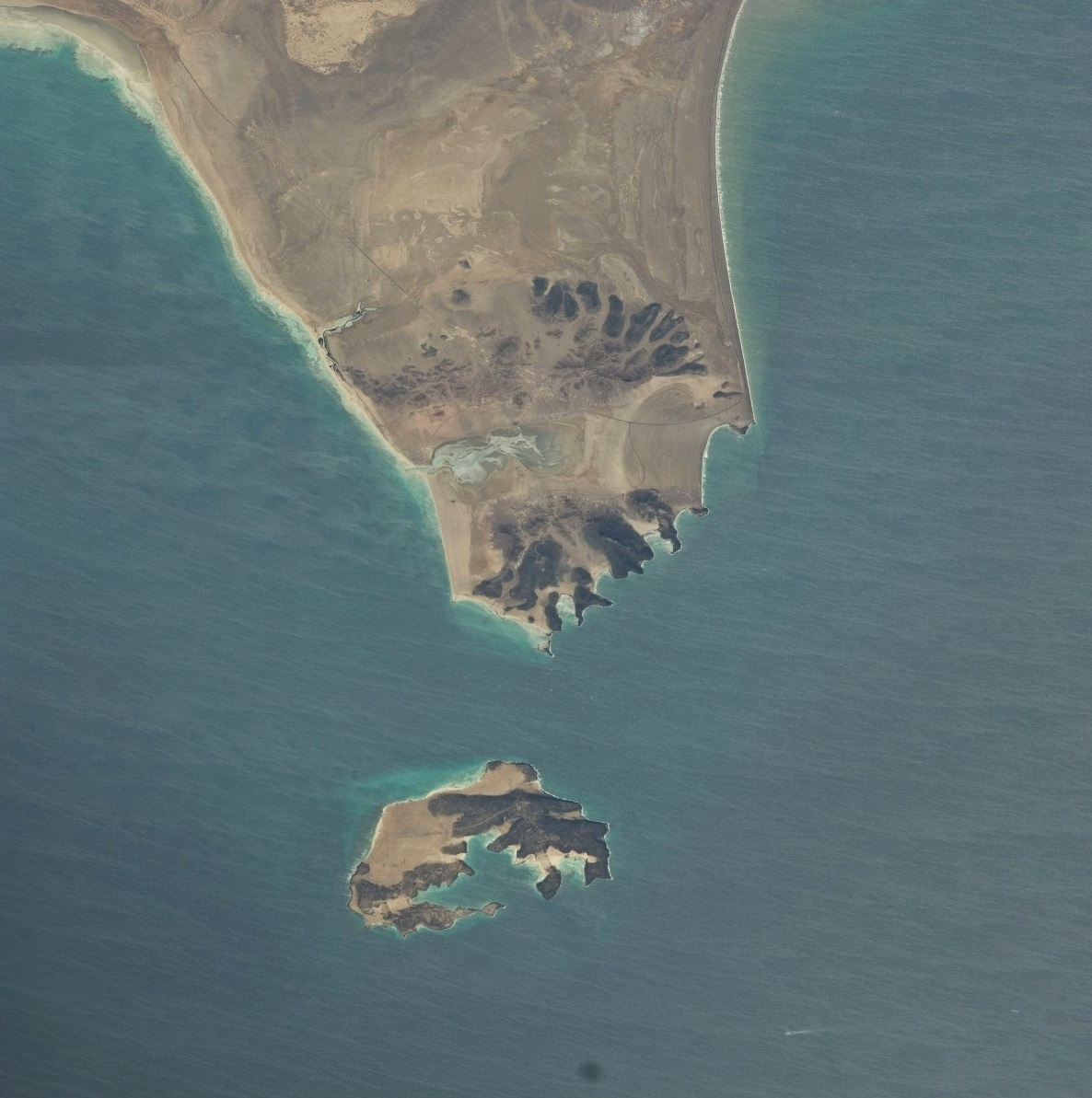 Photo of part of the Strait of Bab-el-Mandeb showing Perim Island and Ras Menheli, also known as Bab-el-Mandeb Peninsula and Shaikh Said Peninsula. Taken from the International Space Station 13 March 2010 at an altitude of 298 km. This image is made of two separate photos joined together.